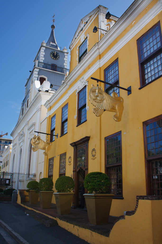 96 Strand Street, Cape Town This media shows a South African Protected Site with SAHRA file reference 9/2/018/0197.